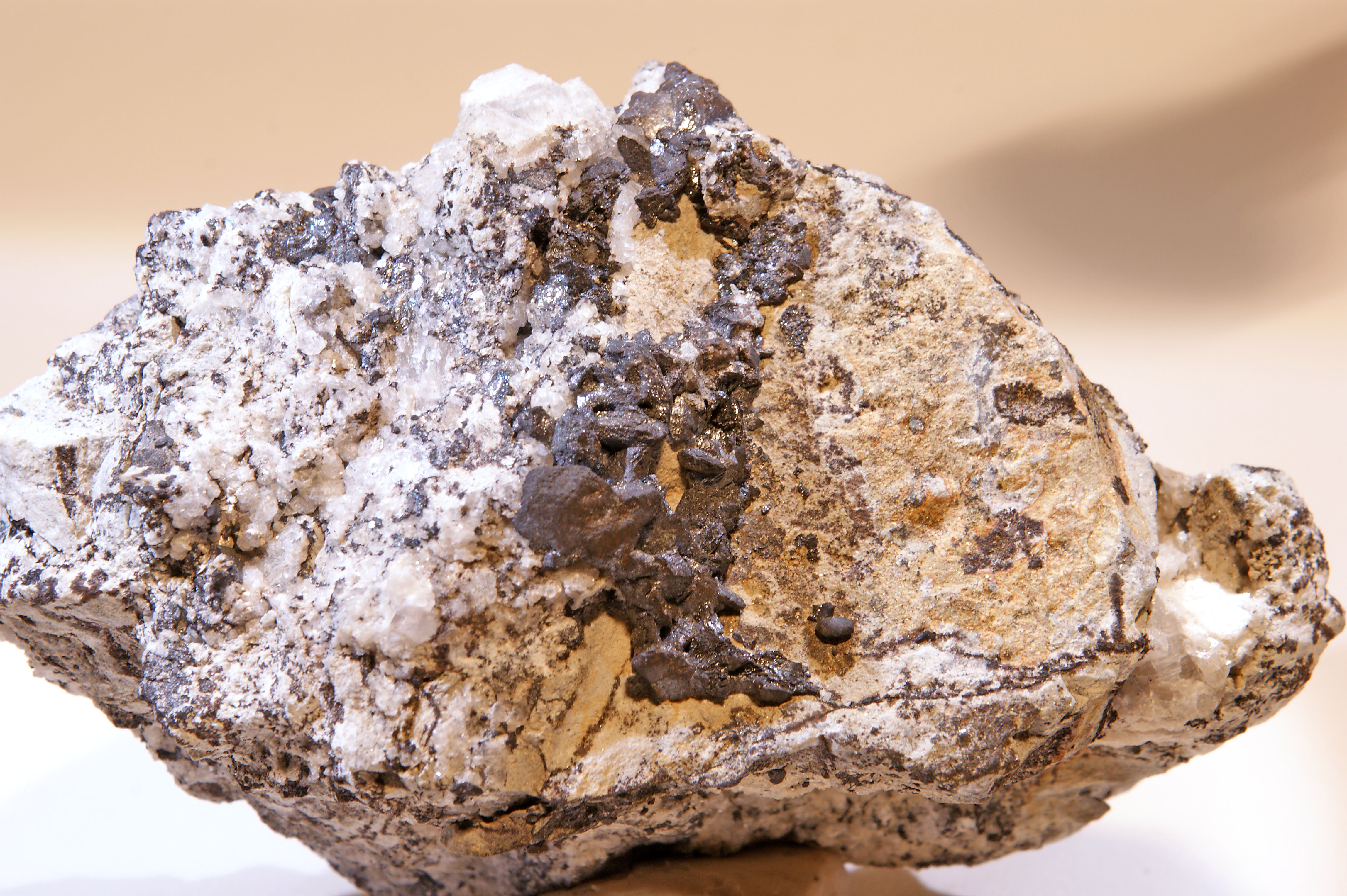 Carrollite - Musonoï, Katanga – Zaïre (11x6cm)